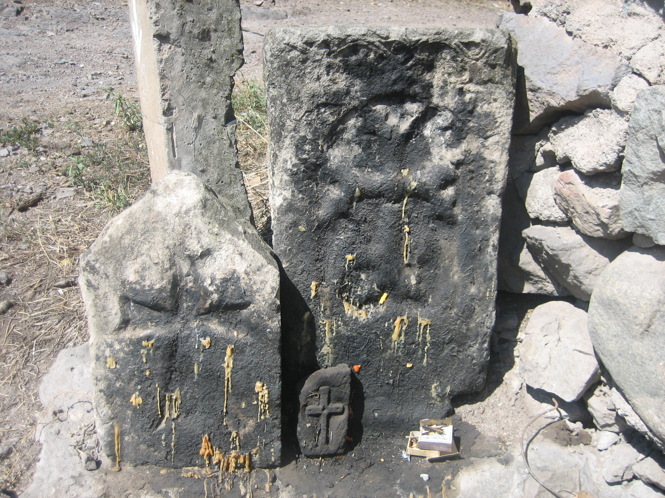 Khachkars in Movses